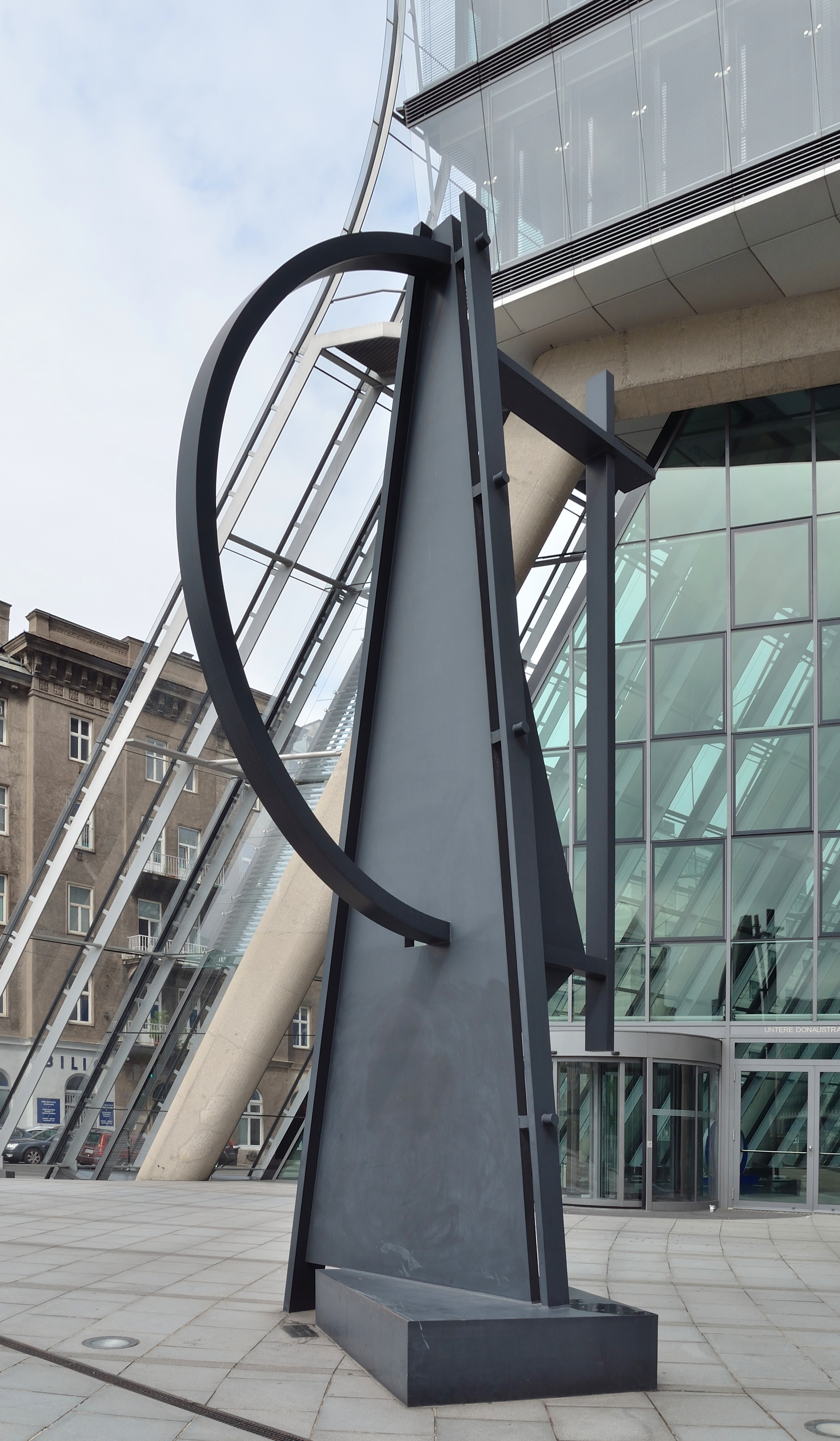 The sculpture Komposition in Eisen by Robert Jacobsen (1912-1993) is located in front of the UNIQA building at Leopoldstadt, Vienna.